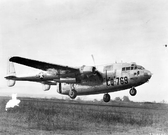 Catalog #: 00013630 Manufacturer: Fairchild Designation: C-119 Official Nickname: Flying Boxcar Notes: Repository: San Diego Air and Space Museum Archive